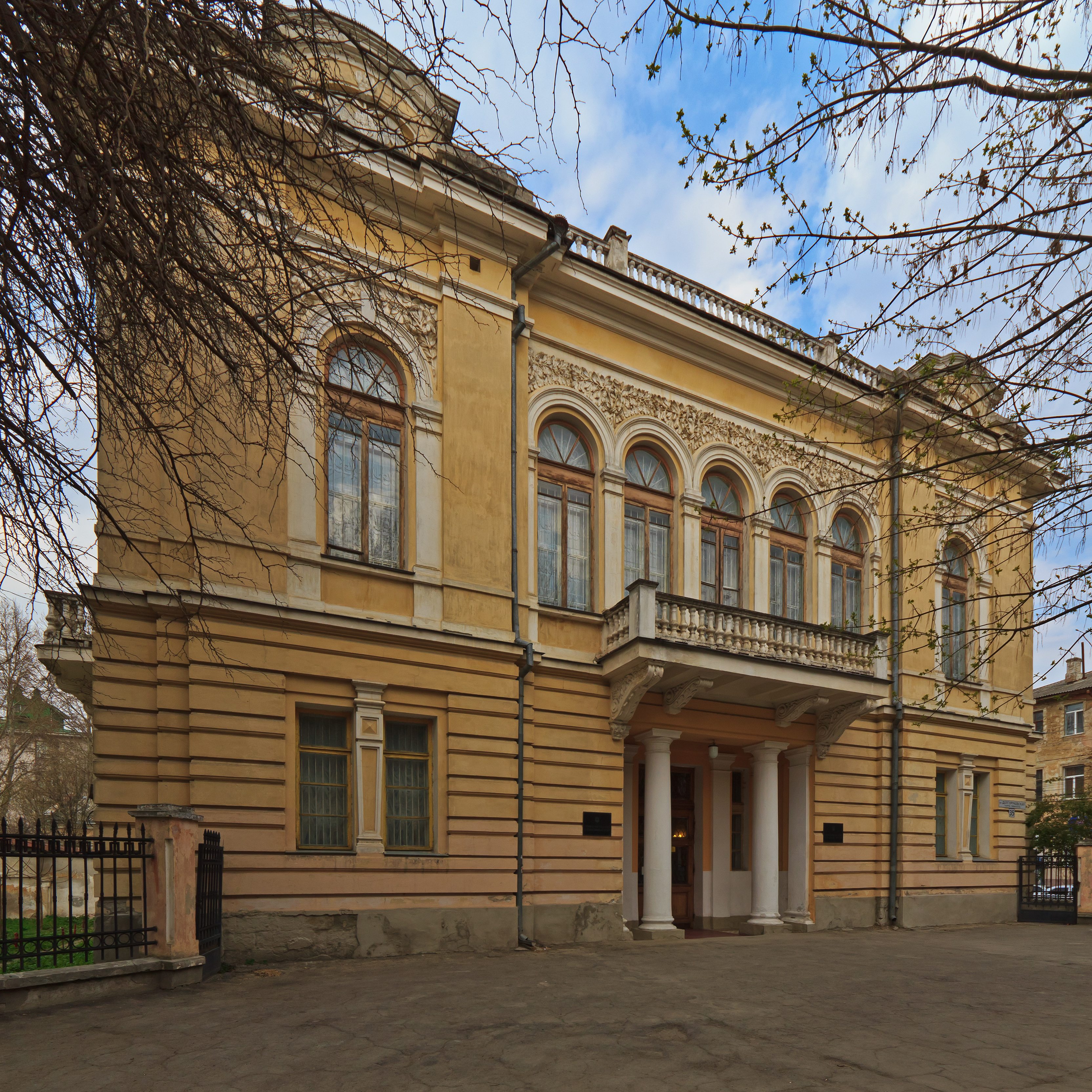 The building of the Art Museum in Simferopol, Crimean Peninsula.